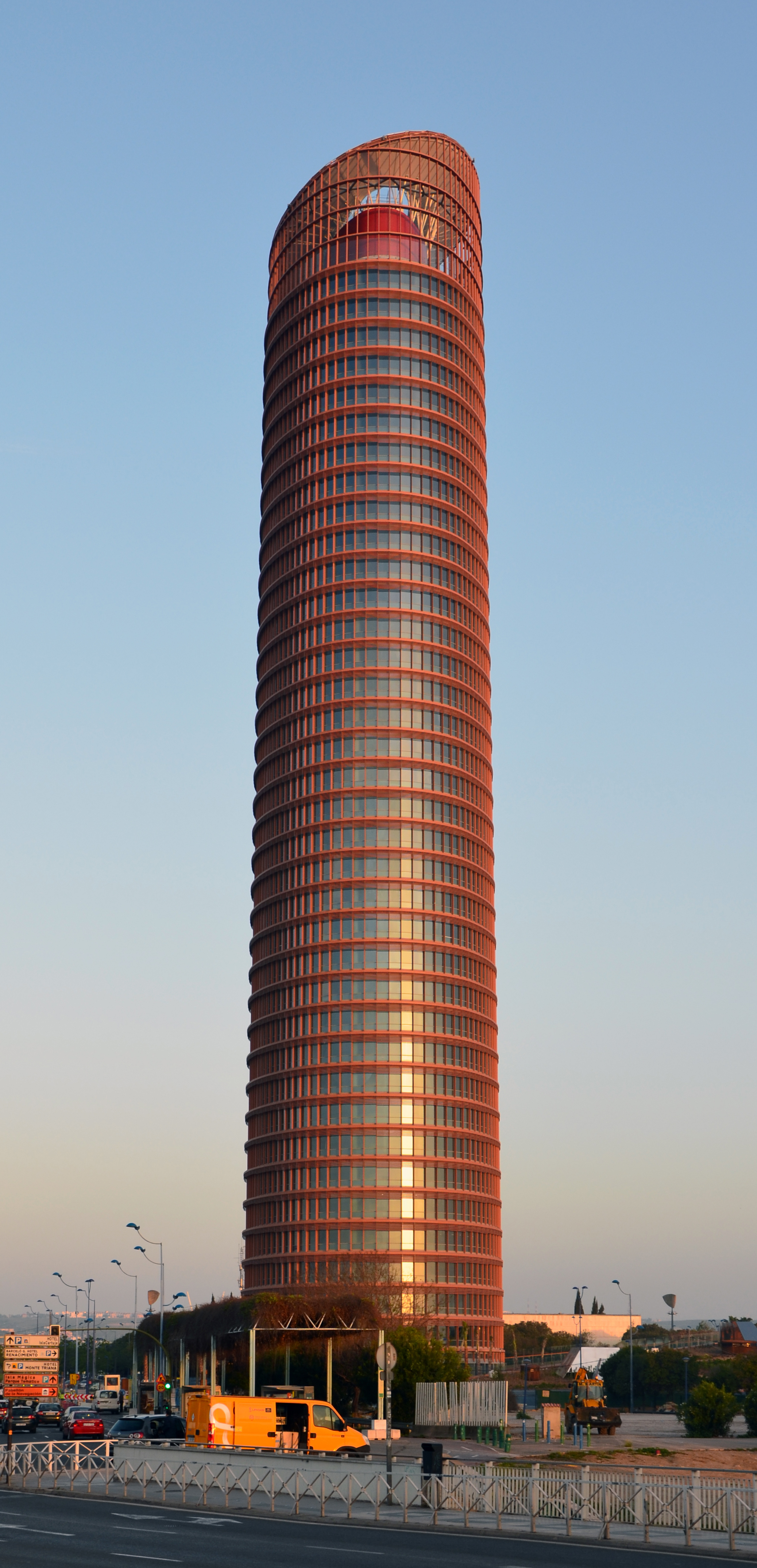 The Sevilla Tower (first known as Cajasol Tower or Pelli Tower) of Seville (Spain), photographed in april 2015 from the west extremity of the Cristo de la Expiración bridge.